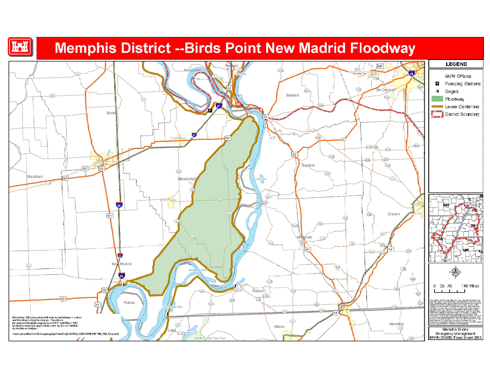 Birds Point-New Madrid Floodway regional map